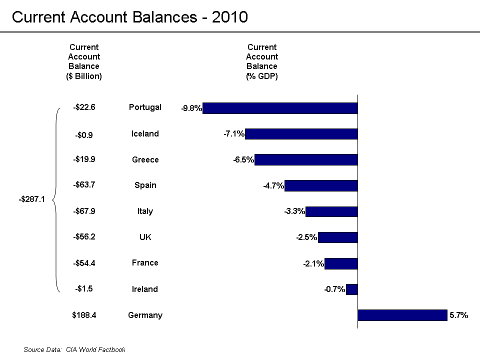 Current account or trade deficits / surpluses for selected European countries Contents 1 Chart explanation 2 Source data 3 Licensing 4 Original upload log Chart explanation Current account balances refer to the net import or export activity of a country. A trade surplus is when exports exceed imports. A trade deficit is when imports exceed exports. Germany has a significant trade surplus, meaning it is a net exporter. The other countries often mentioned in this crisis all have trade deficits. Trade deficits have goods and services components. A country that is a net importer of goods and services must borrow capital to fund this activity. This is referred to as the balance of payments identity. It may be helpful to think of it as a form of vendor financing, with the surplus country taking the wealth it receives in exchange for goods and lending it back to the deficit country. A helpful explanation of international trade theory is summarized in this speech by Ben Bernanke: Ben Bernanke-The Global Savings Glut-2005 Economist Paul Krugman summarized the speech here: Paul Krugman-Revenge of the Glut-March 2009 Source data Source data is from the CIA World Factbook, as of December 11, 2011. The GDP figure used is at official exchange rates. Here is the citation for Italy: CIA World Factbook-Italy